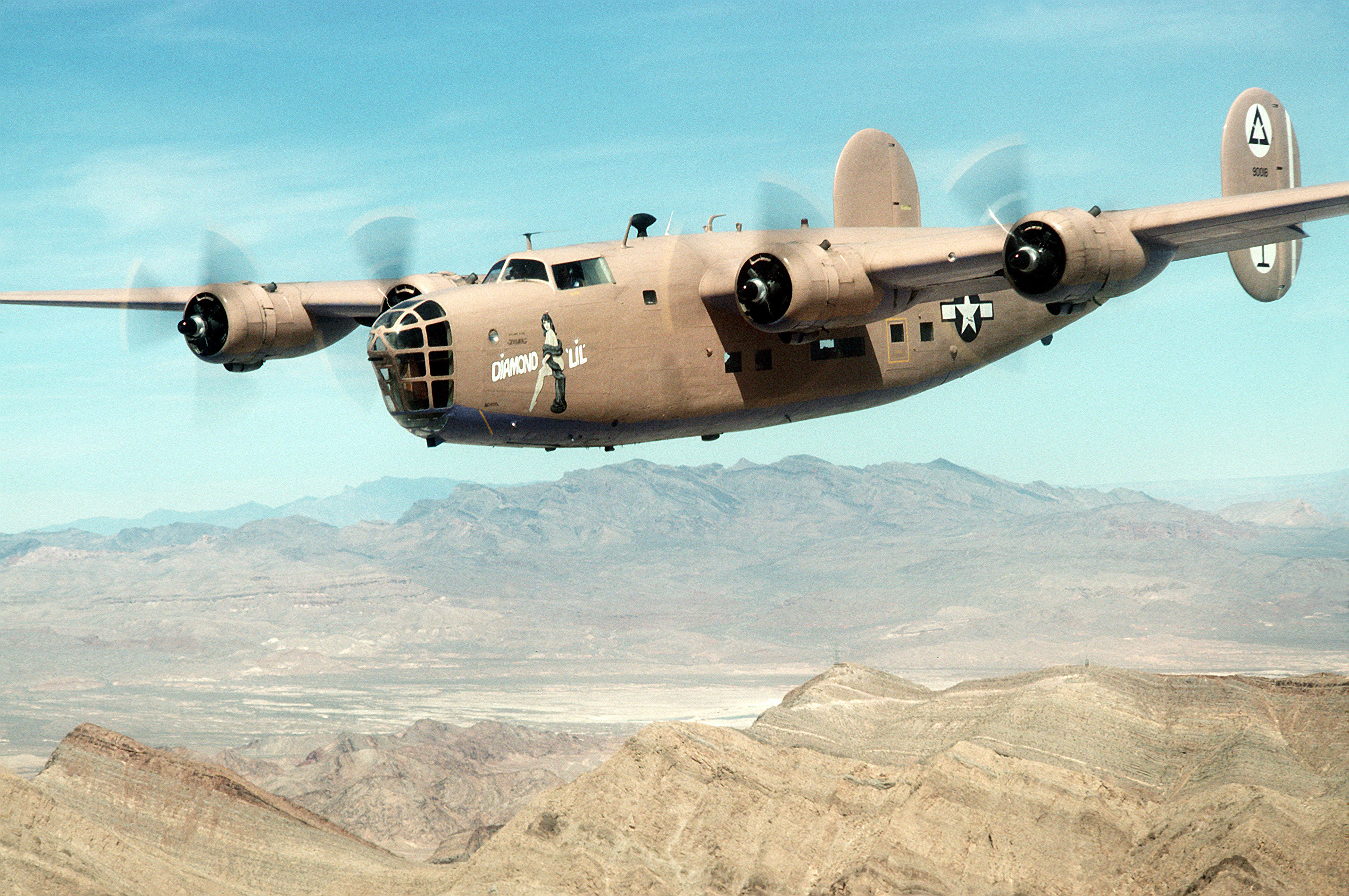 An air-to-air left front view of a B-24 Liberator "Diamond Lil" aircraft flying in an air show held during the Air Force Association's "Gathering of Eagles", a convention commemorating spectacular achievements in the free world's aerospace development. Location: LAS VEGAS, NEVADA (NV) UNITED STATES OF AMERICA (USA).